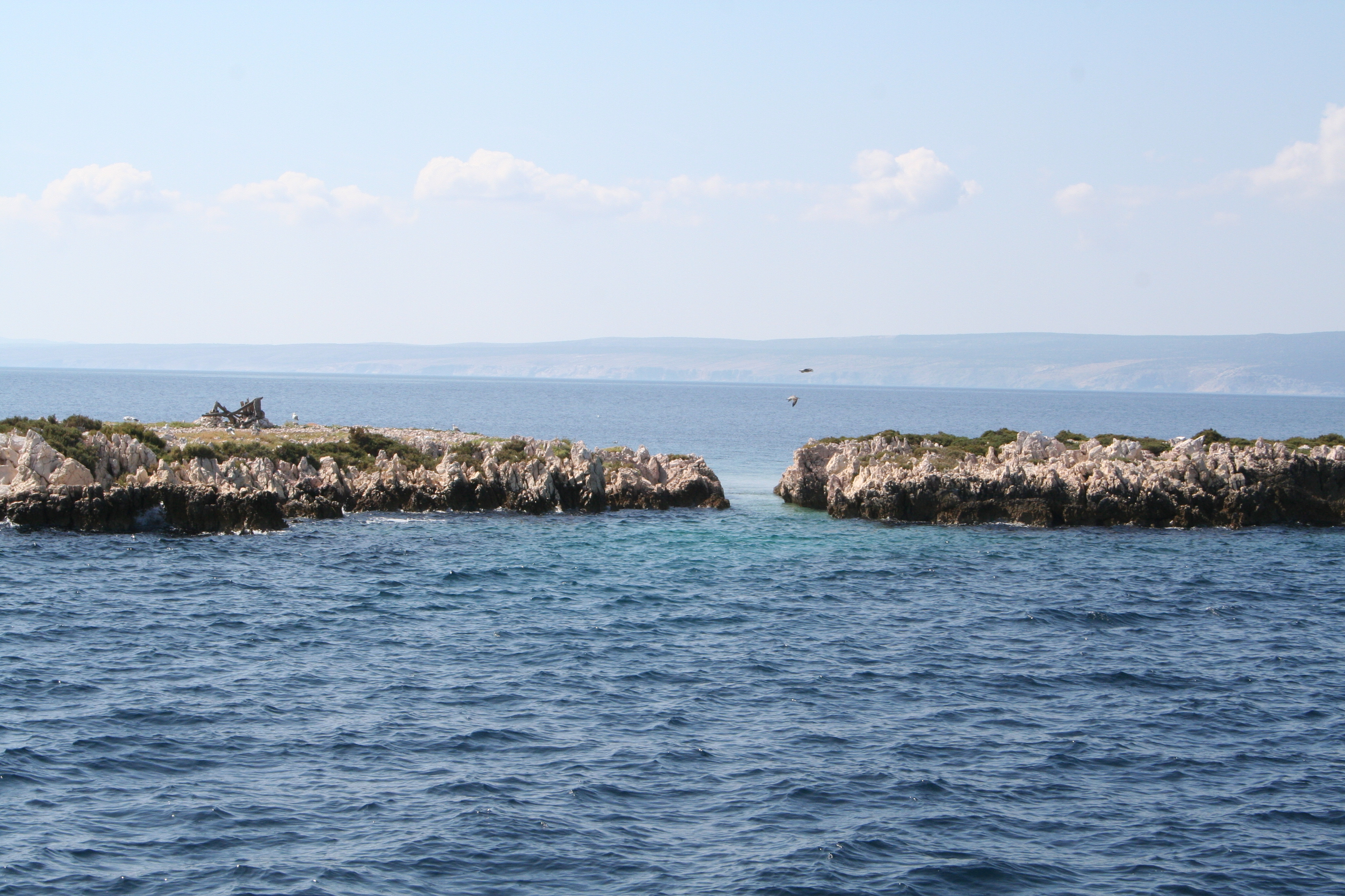 The Island of Kormati, Croatia